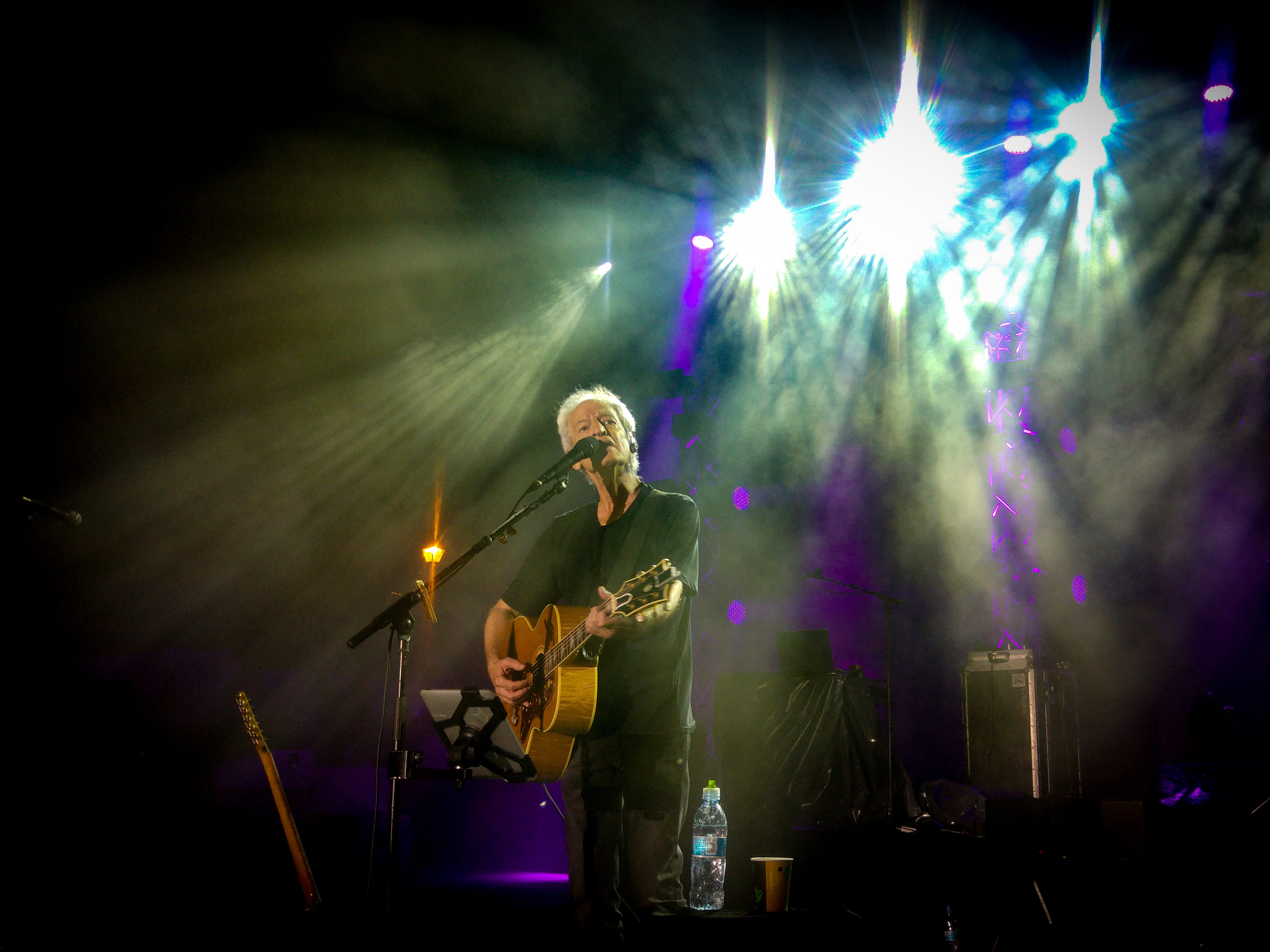 Shalom Hanoch at Binyamina Festival for Israeli creation, Fall 2017